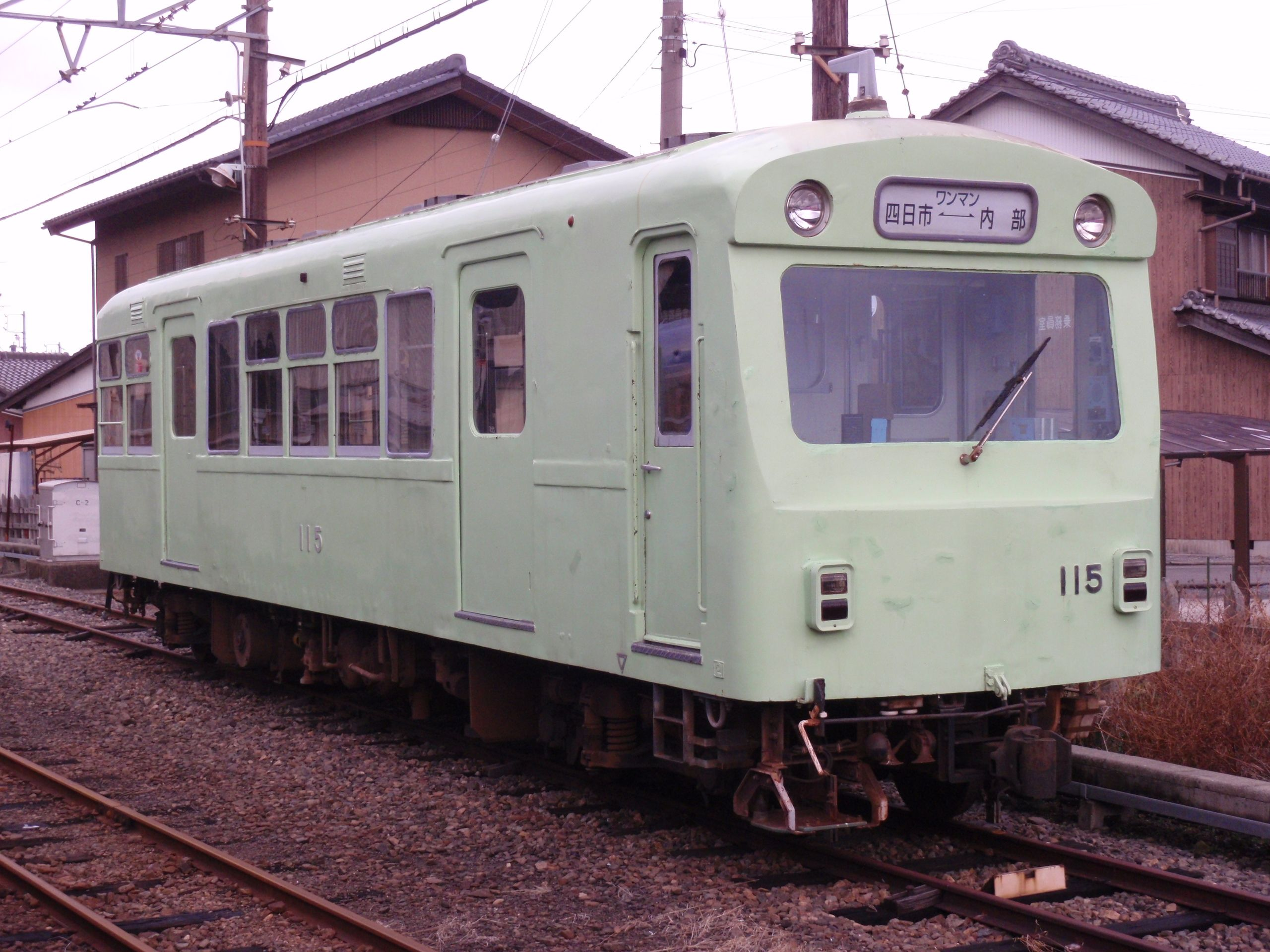 Kintetsu 115